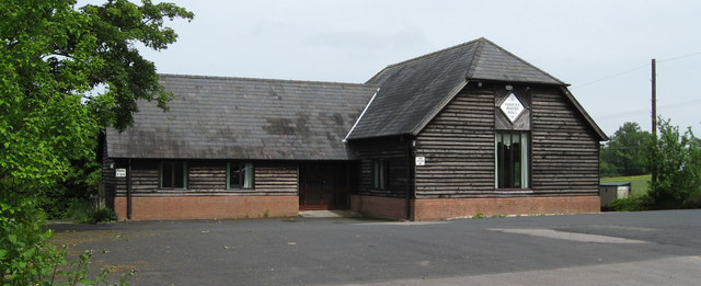 Yarpole Village Hall Curiously situated in Cock Gate well outside Yarpole village's centre.